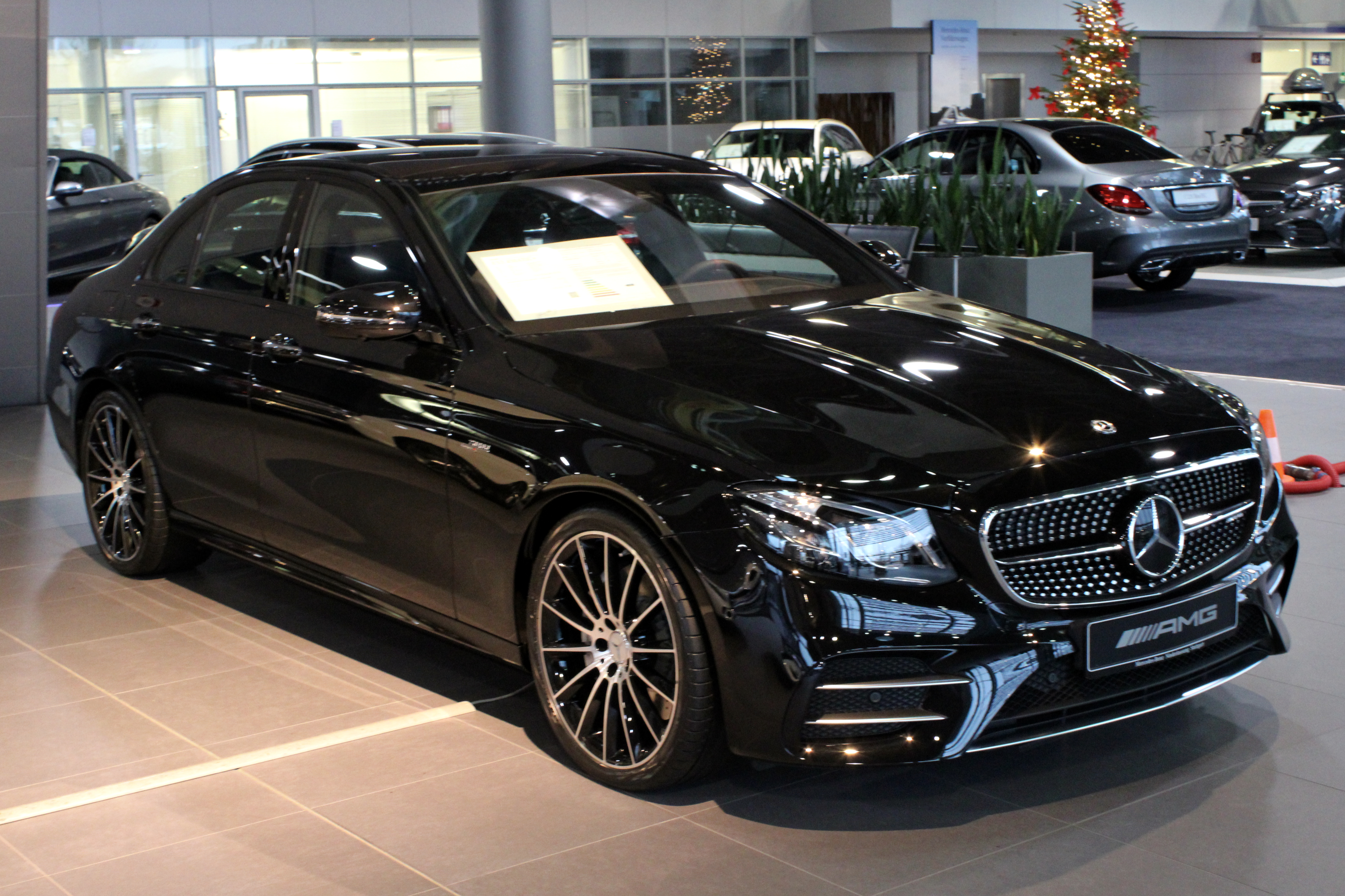 Mercedes-AMG E 53 4Matic+